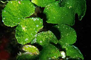 Halimeda tuna - calcareous green alga